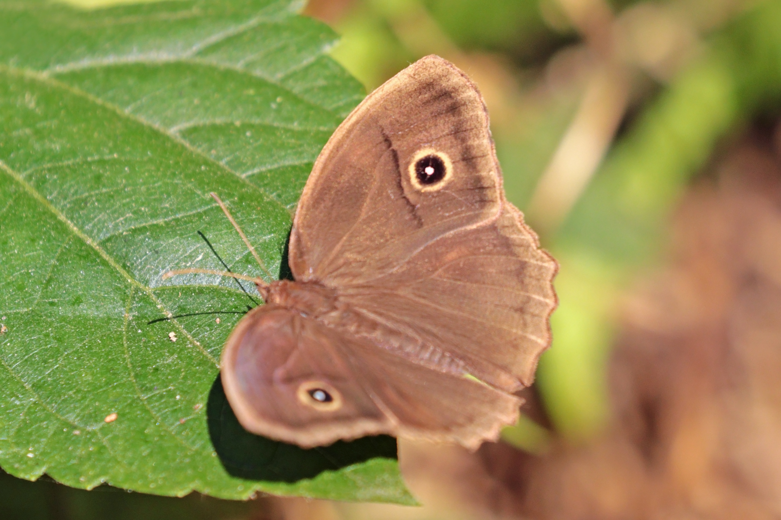 Dark-brand bushbrown (Mycalesis mineus mineus) dry season form, Pokhara, Nepal